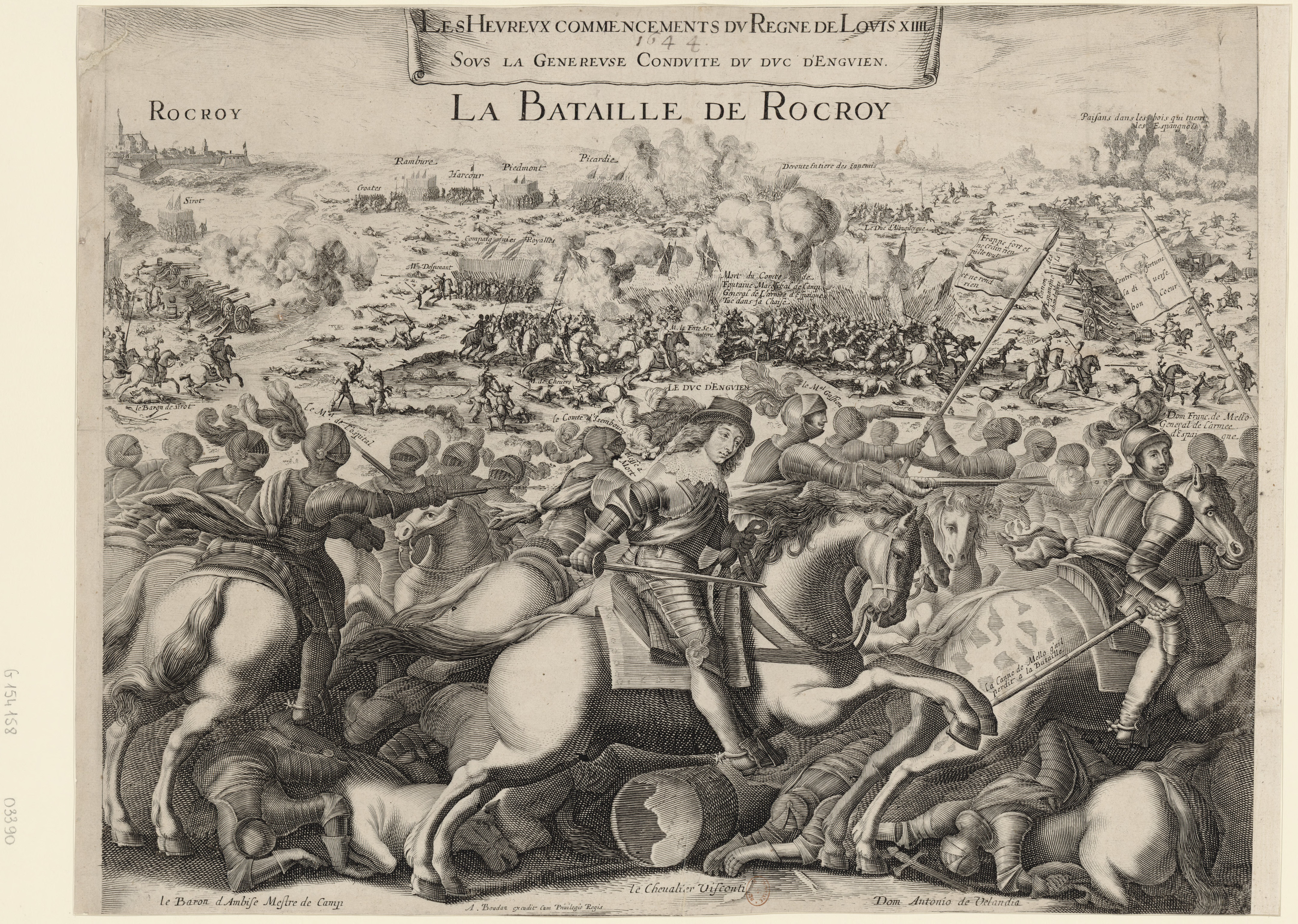 Engraving of the Battle of Rocroi (1643)